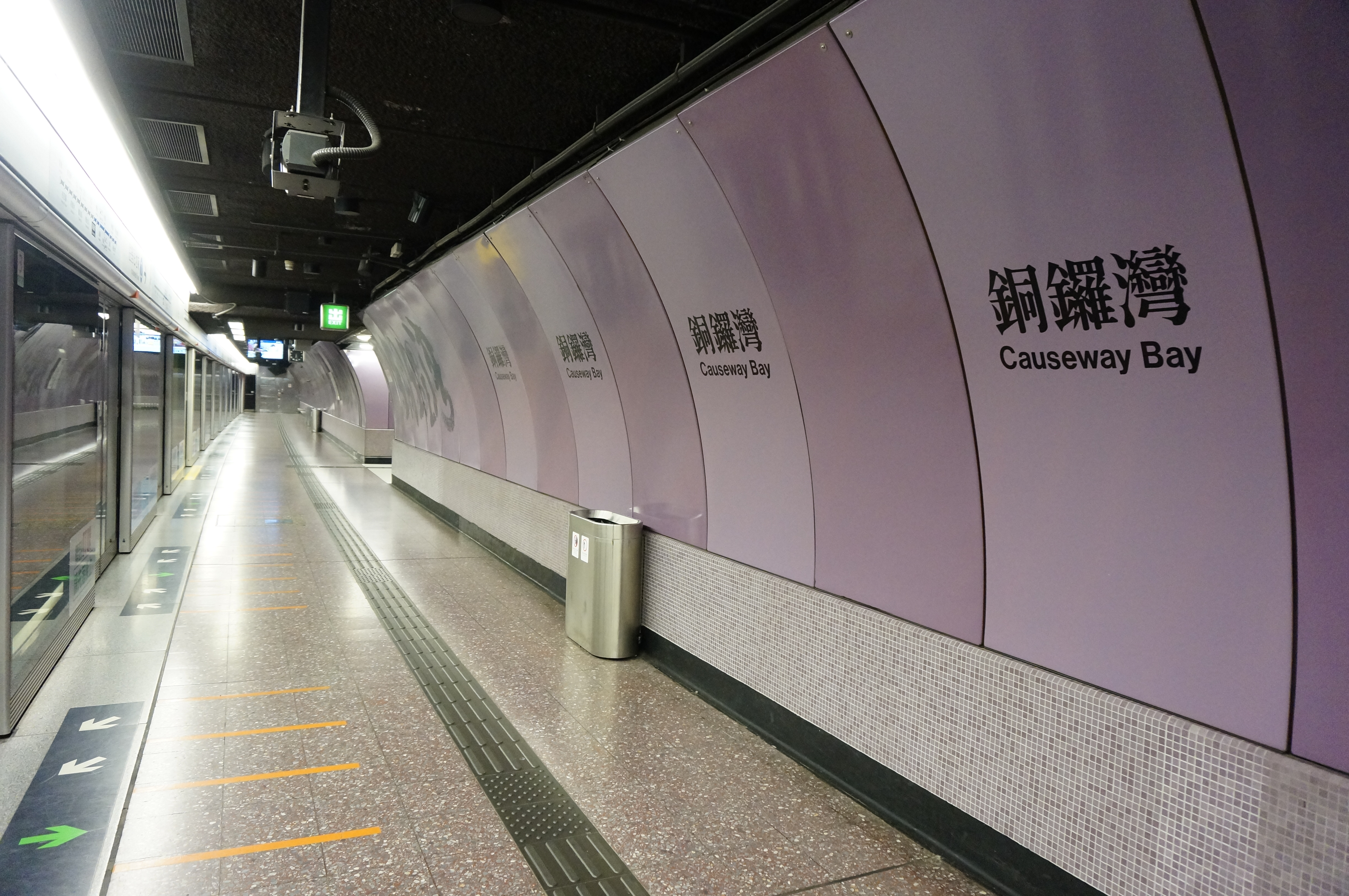 MTR Causeway Bay station platform